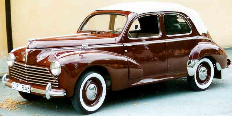 Peugeot 203 Cabriocoach 1950